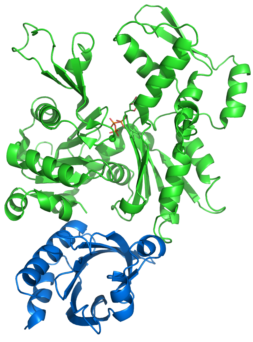 atomic structure of profilin in comlex with actin, PDB code 2BTF, cartoon representation, rendered with PyMol